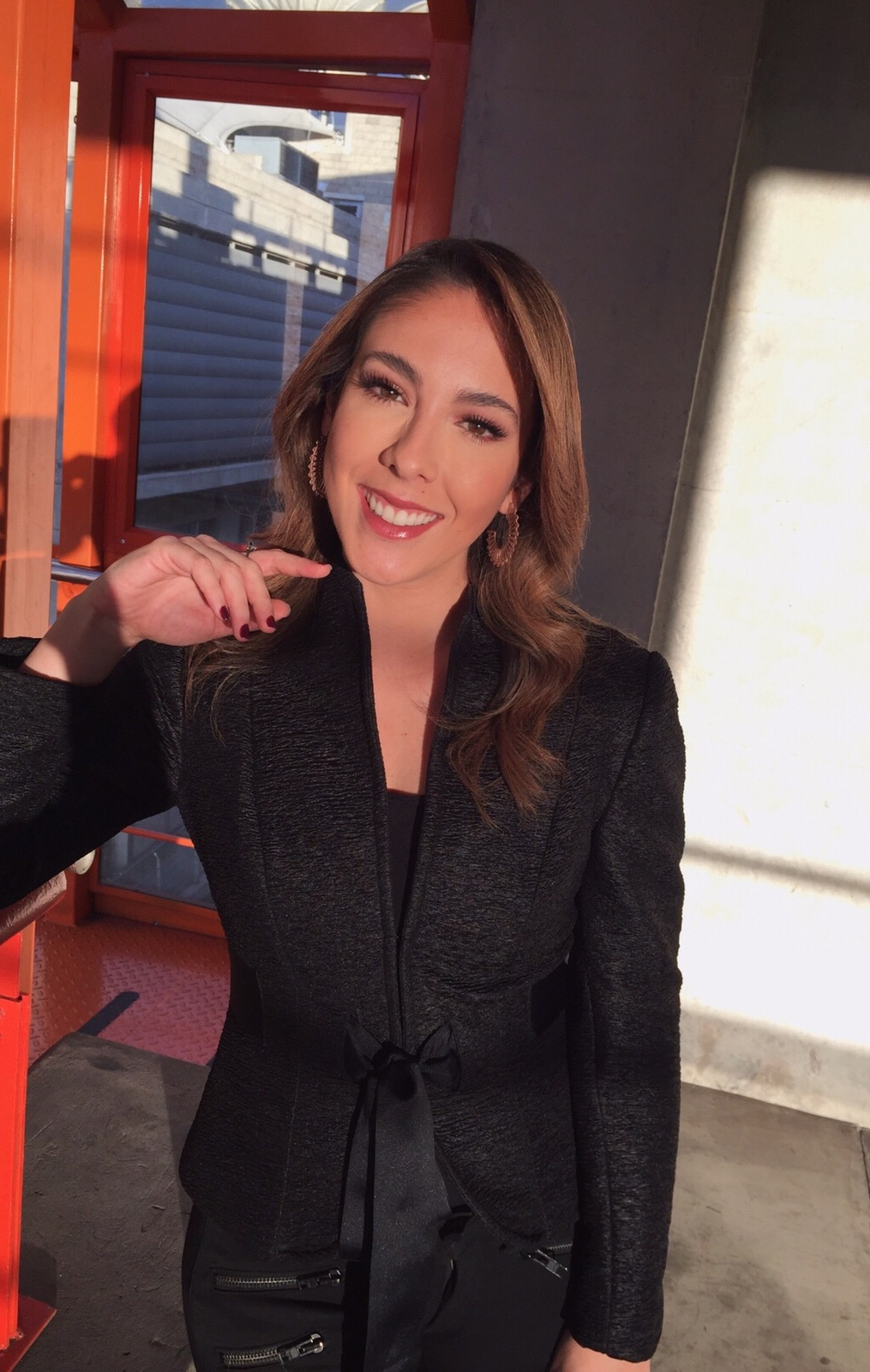 Juanita Gómez, journalist